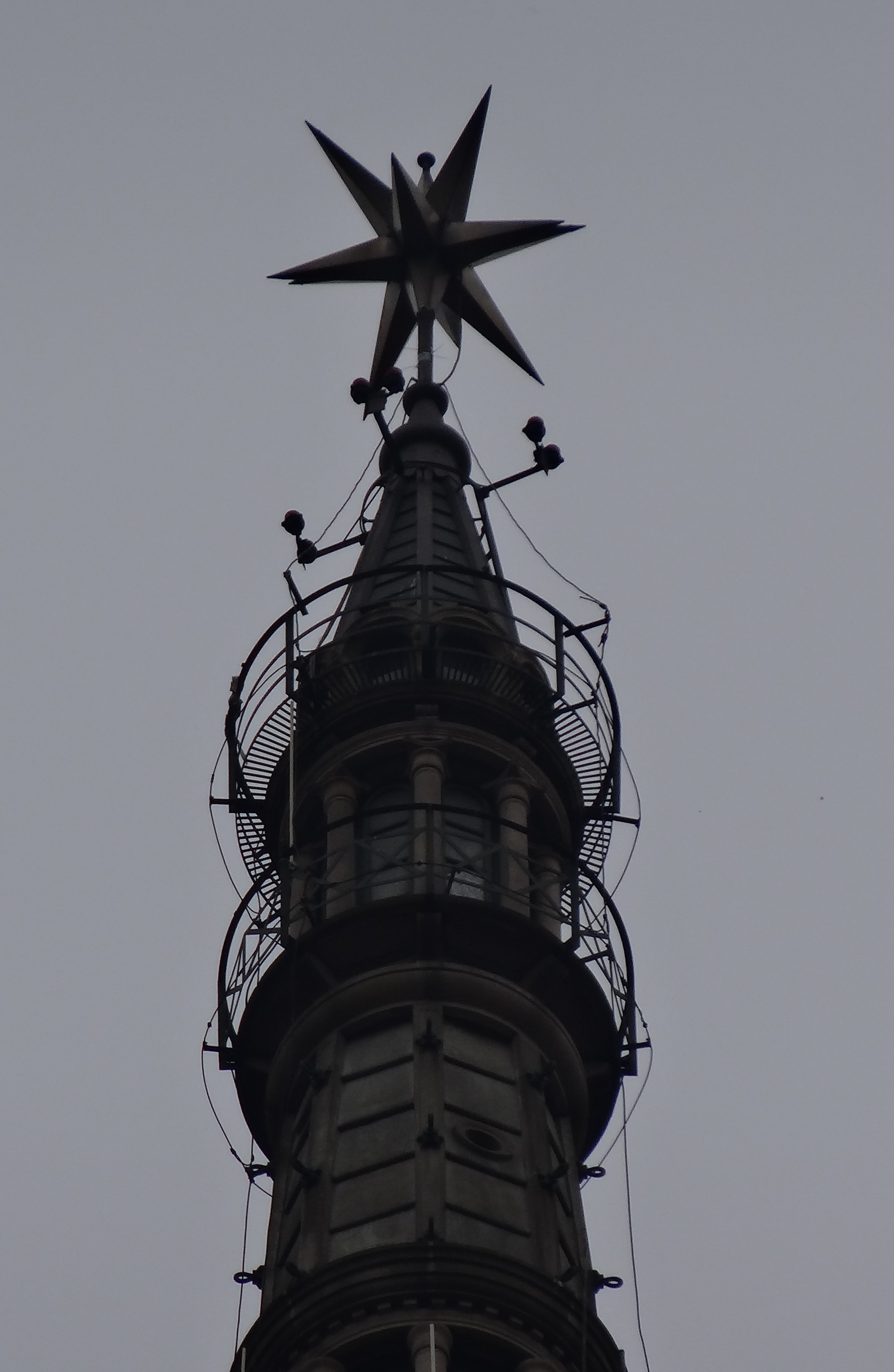 Torino